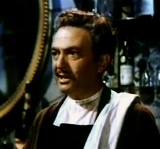 Marcel Dalio in The Snows of Kilimanjaro - cropped screenshot